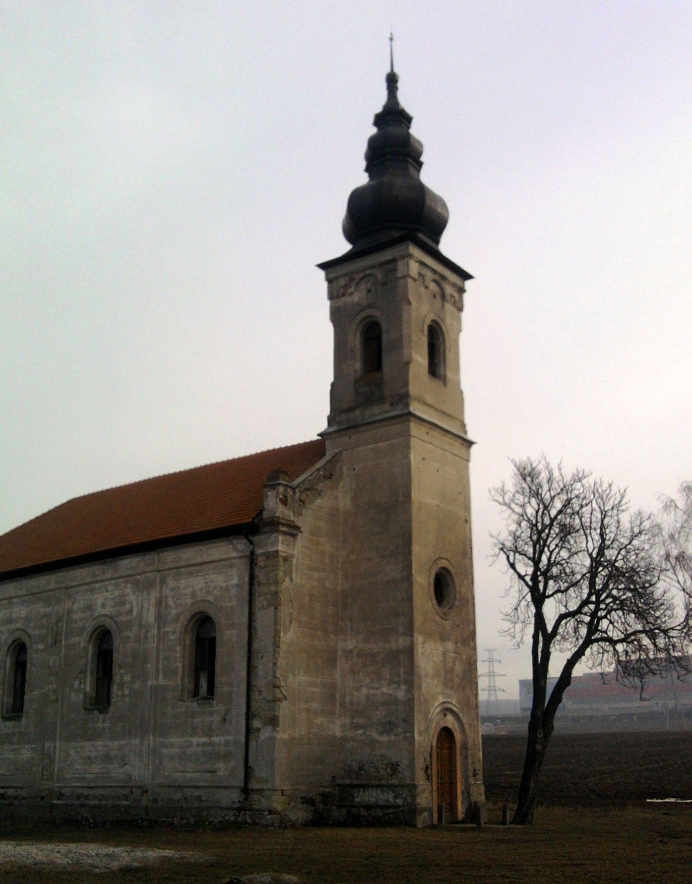 Church in Mochovce near Mochovce Nuclear Power Plant